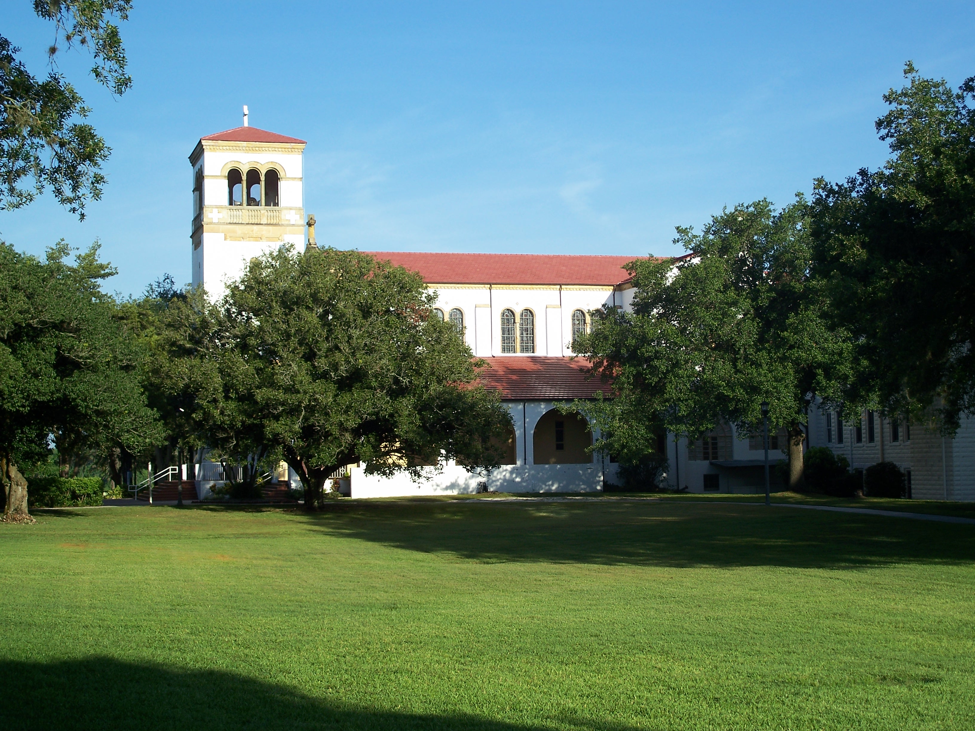 Saint Leo Abbey Church as seen from Saint Leo University main campus